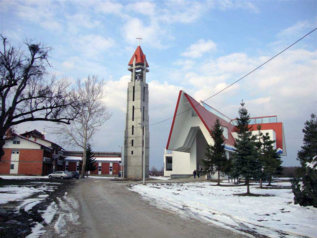 Dubrave monastery